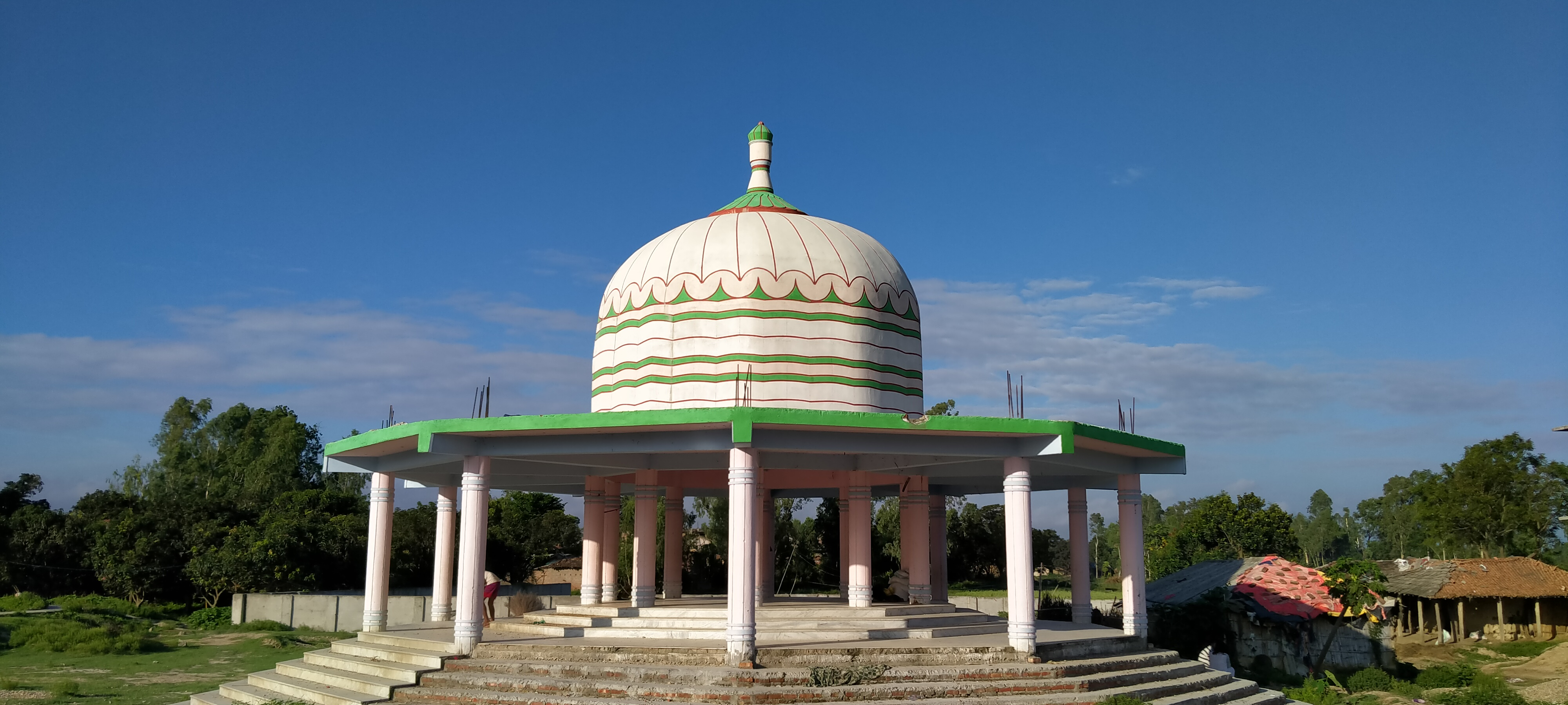 Vedi- Place where marriage of Ram Sita actually happened